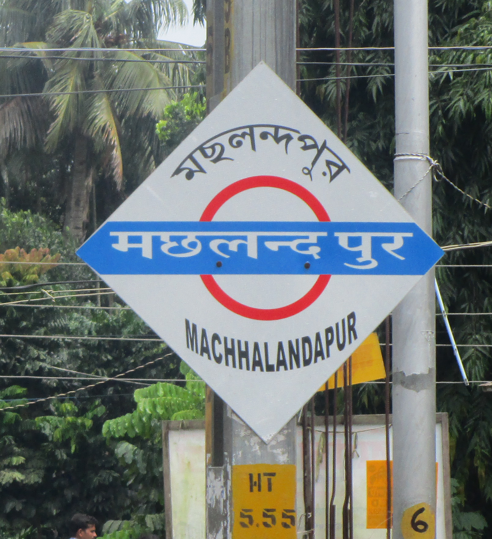 Maslandapur railway station platformboard